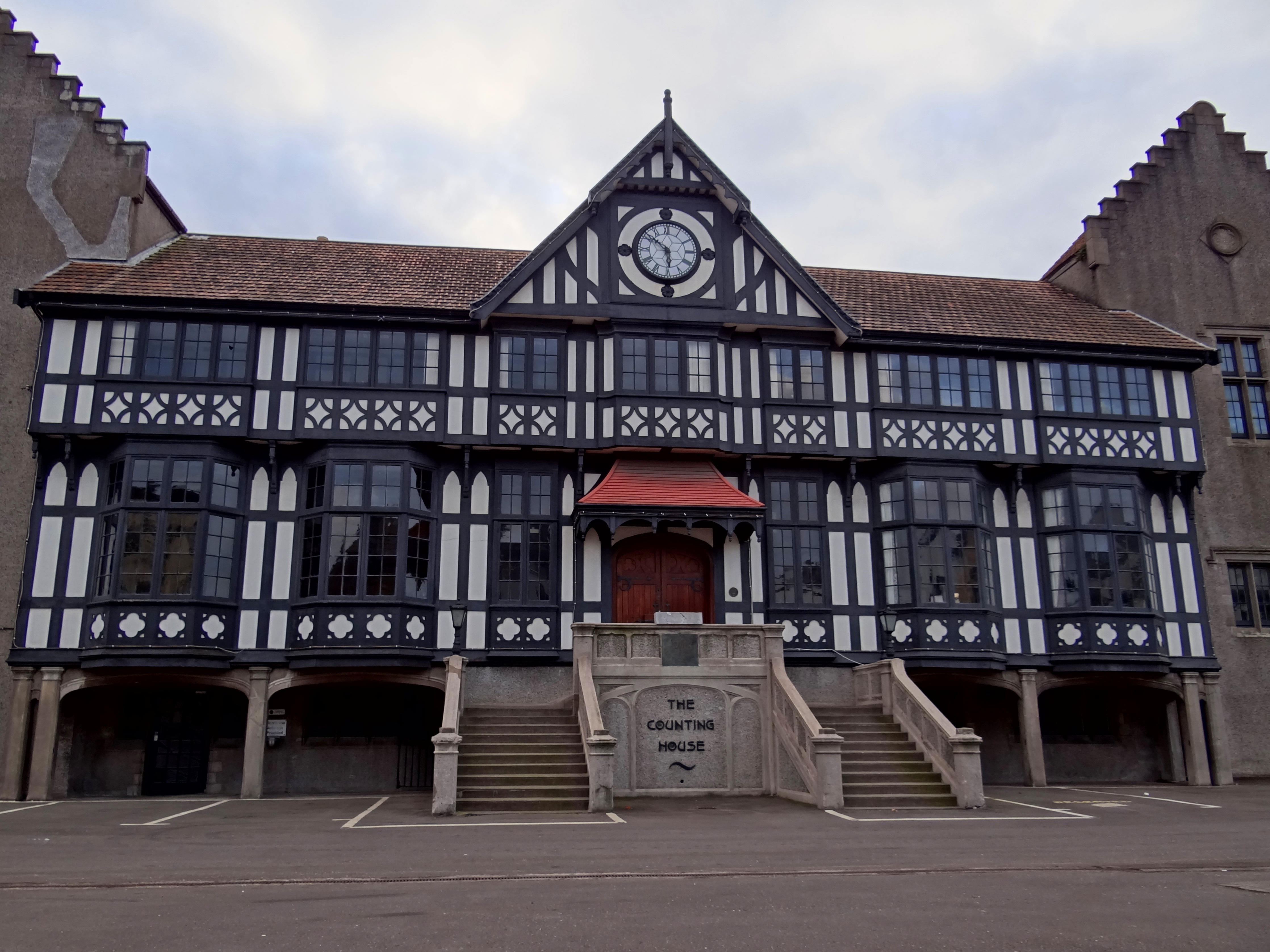 The Counting House, a Tudor building inside the Beamish Crawford brewery complex in Cork, Ireland.